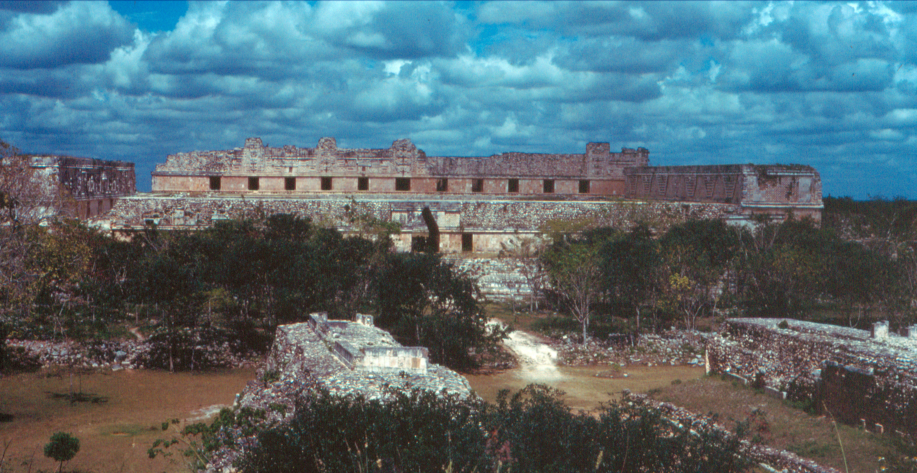 Uxmal,Yucatan, Mexico: Nunnery seen from the south.